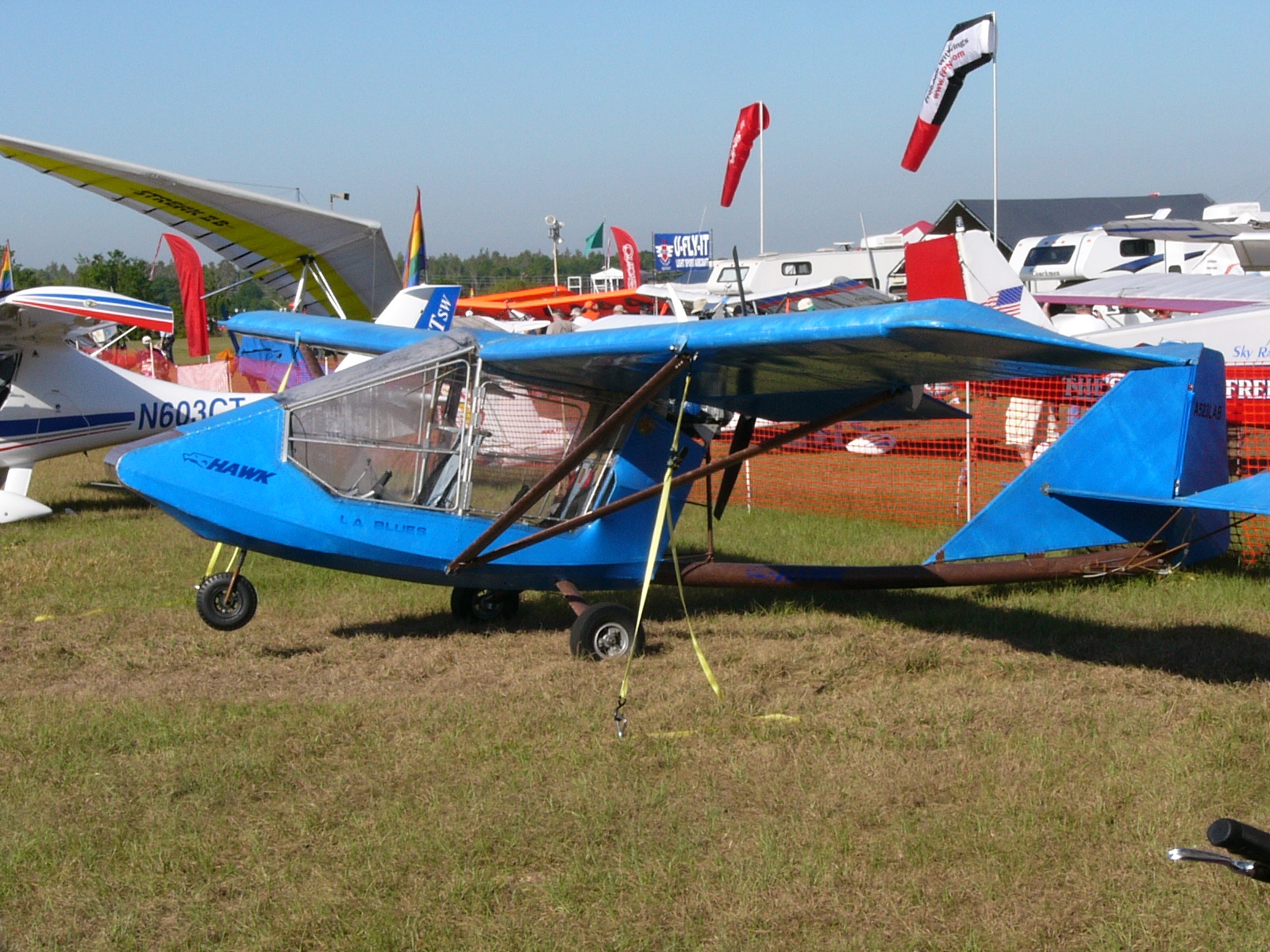 A CGS Hawk Arrow II with dope and fabric covering, at Sun 'n Fun 2006. This plane was powered by a three cylinder Geo Metro auto engine with a Raven Redrives propeller speed reduction unit.